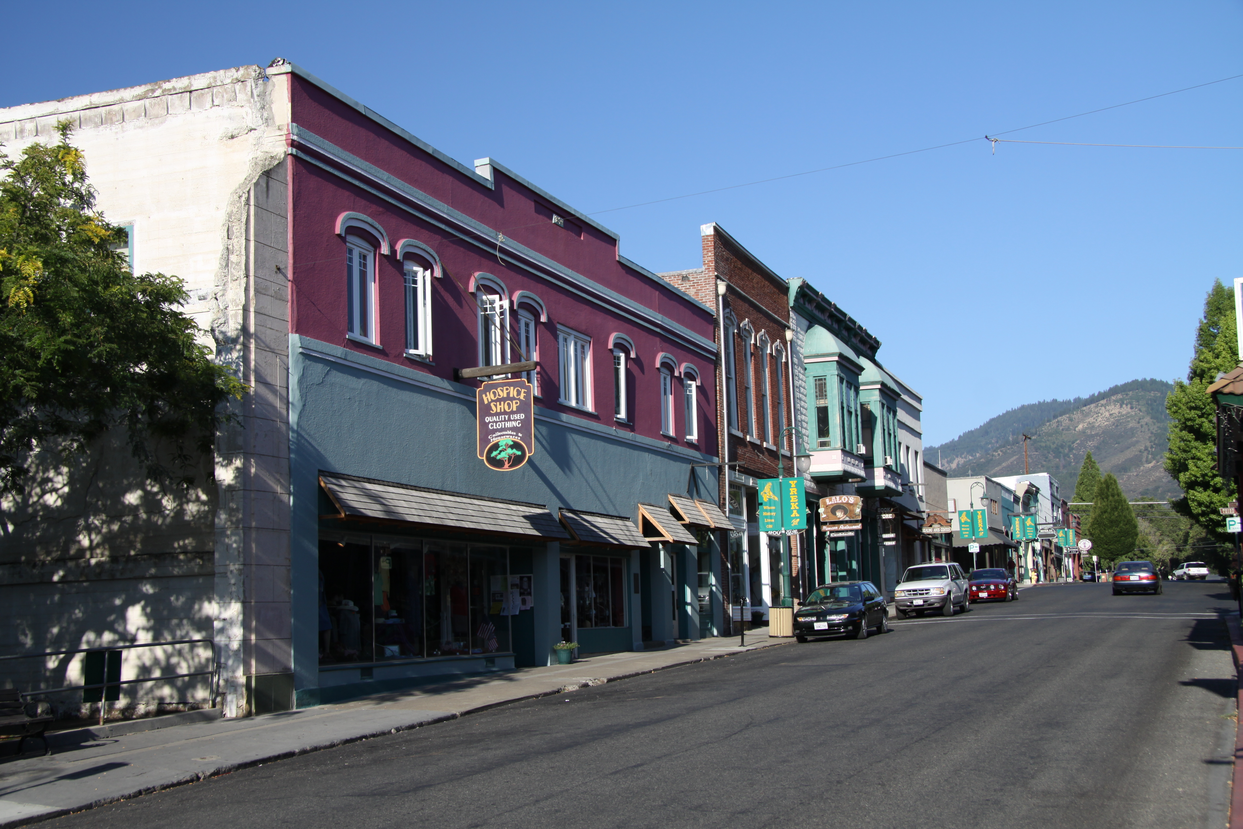 Town Yreka in northern California, United States of America